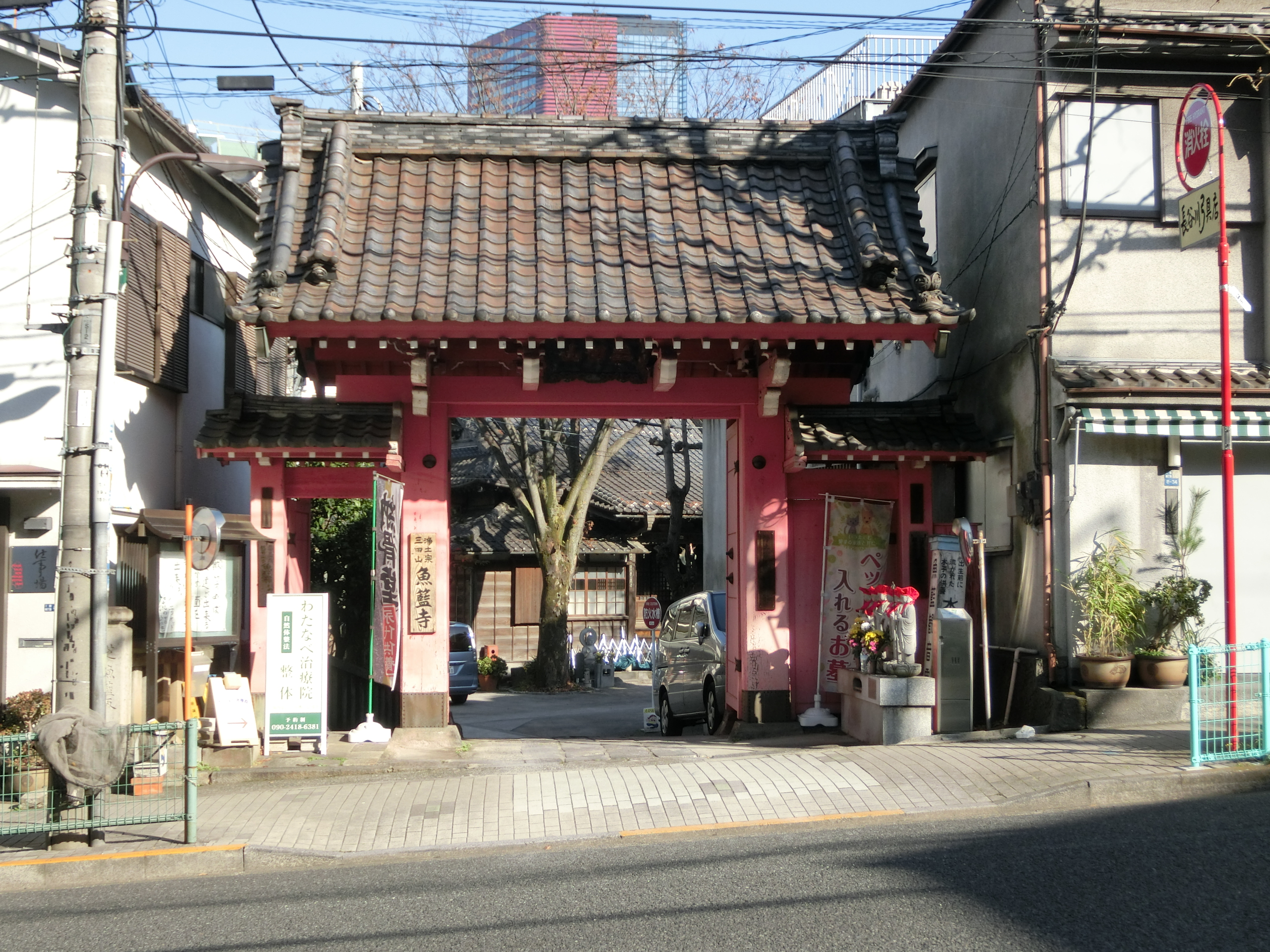 Gyoran-ji